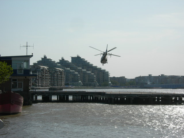 London Heliport.